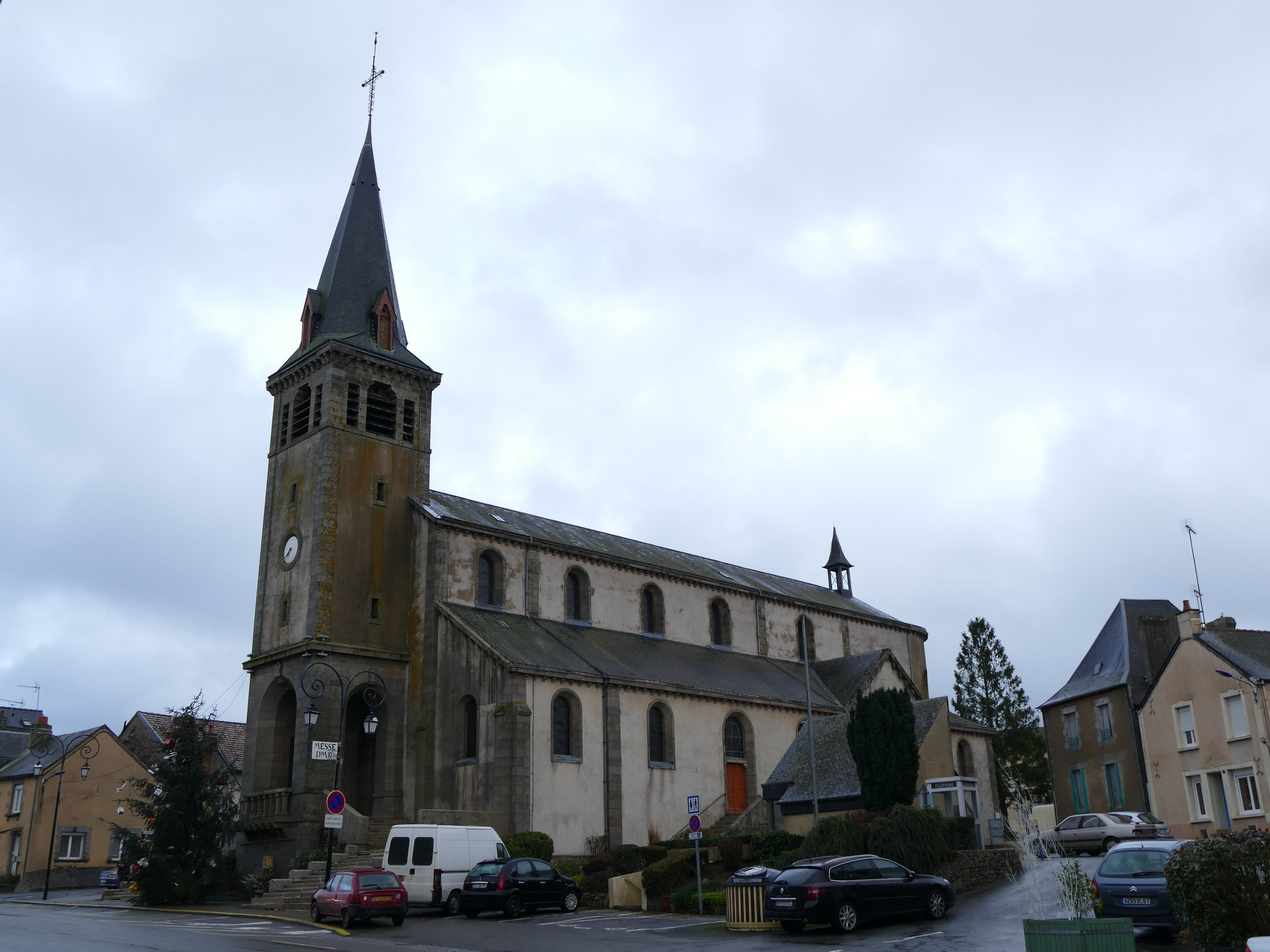 Sainte-Teresa's church in Pré-en-Pail (Mayenne, Pays de la Loire, France).